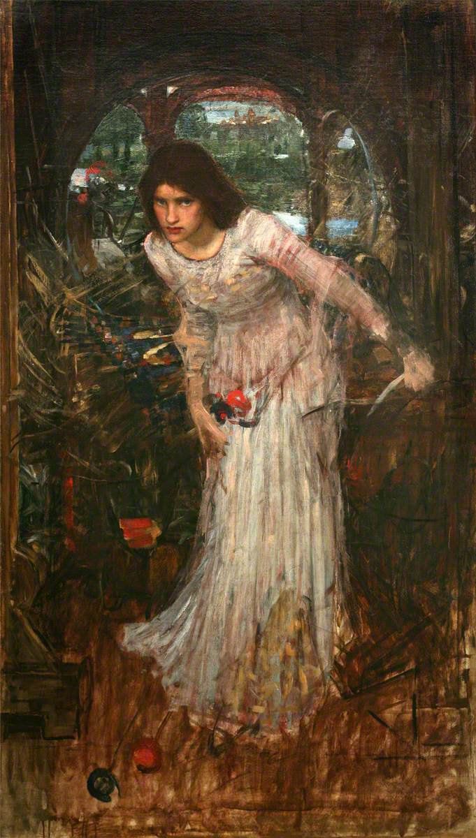 This is the study for the finished painting in Leeds Art Gallery, although many critics prefer the vitality and freedom of brushwork shown in this picture. (see source)